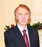 Volodymyr Ohryzko, a Ukrainian politician.